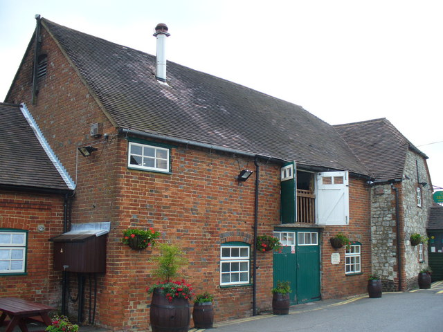 Hogs Back Brewery Brewery in Tongham, sited within 16th century former farm buildings.